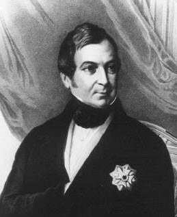 Baron Hugo van Zuylen van Nijevelt (1781-1853)